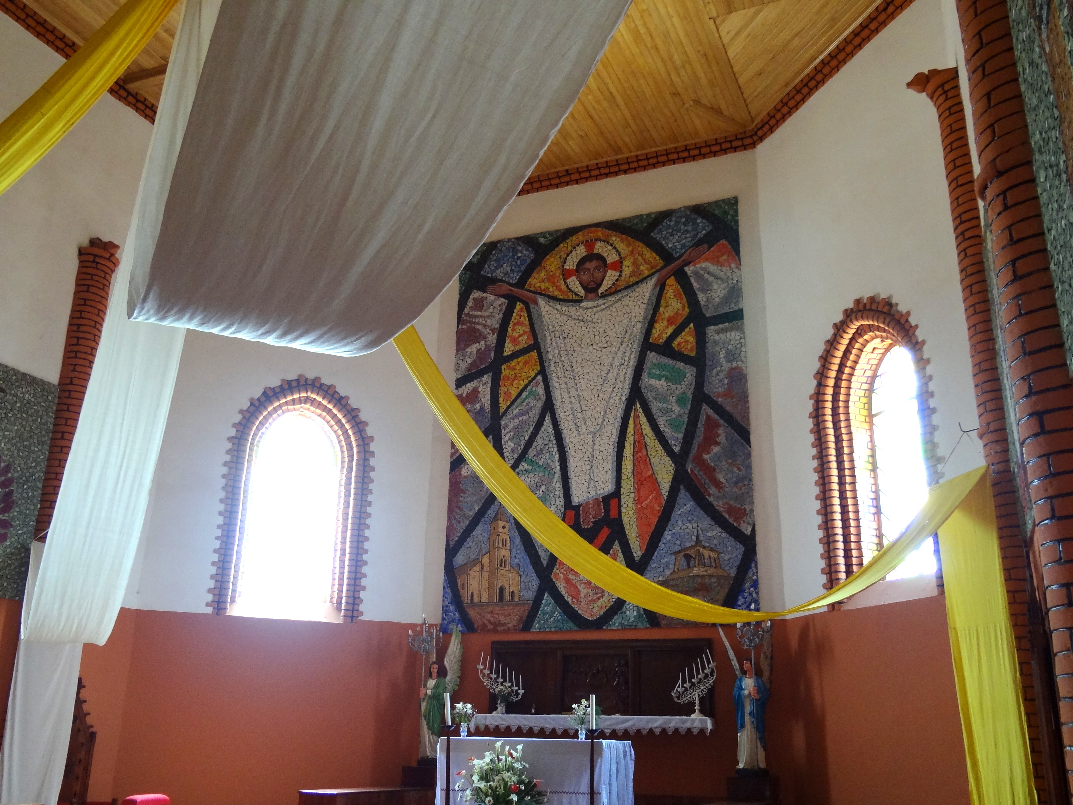 Altar Backdrop - Cathedral Basilica of Our Lady at Kabgayi - Outside Muhanga-Gitarama - Rwanda